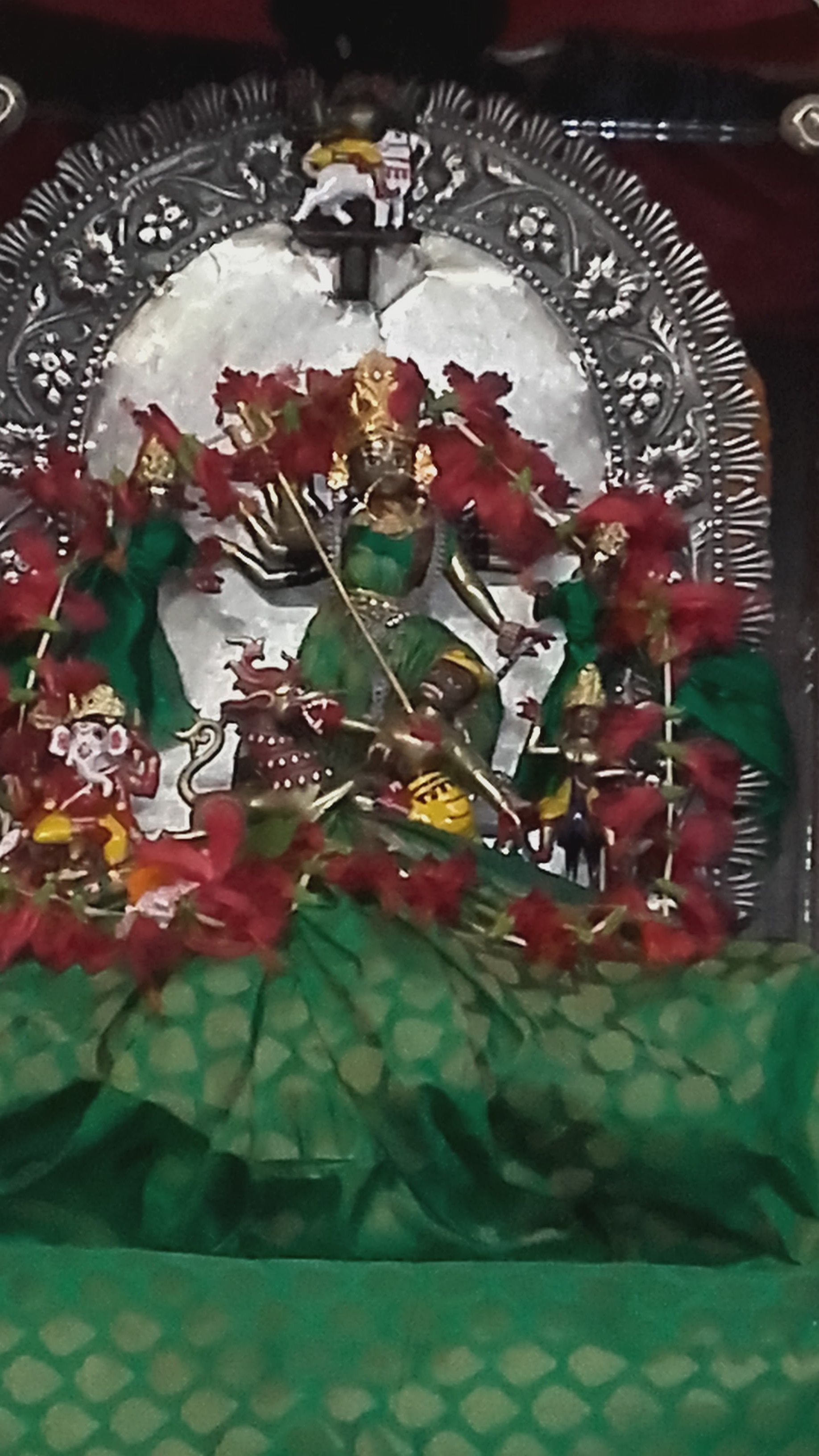 Dhakeswori Mata